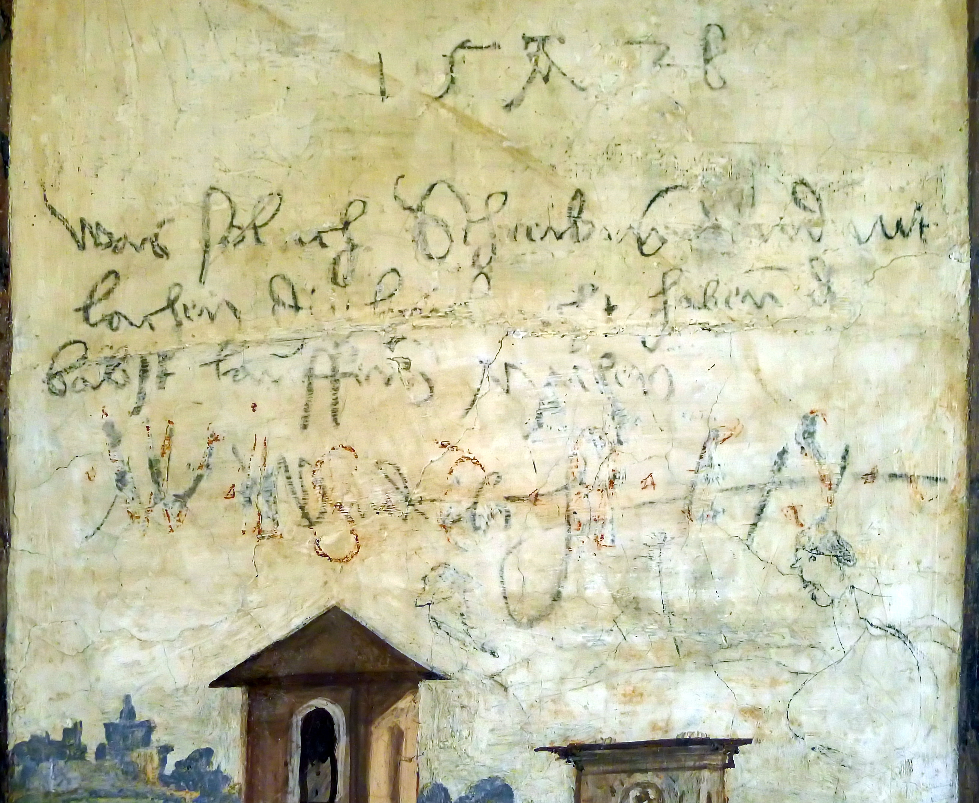 Graffitto in the Sala delle Prospettive